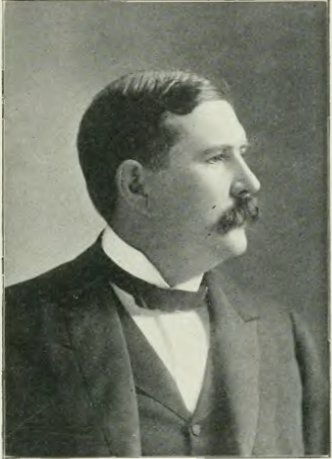 Portrait in History of Iowa From the Earliest Times to the Beginning of the Twentieth Century